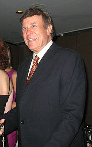 This is a picture of Bruce Morrow taken at the Songwriters Hall of Fame ceremony in New York City on June 18th, 2009.